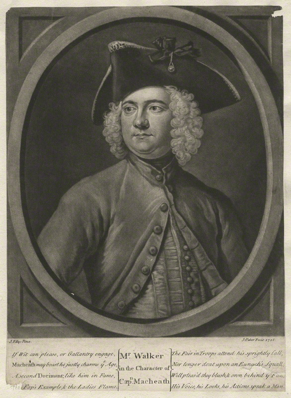 Portrait of Thomas Walker (1698–1744), English actor. He is in character as Captain Macheath in The Beggar's Opera.